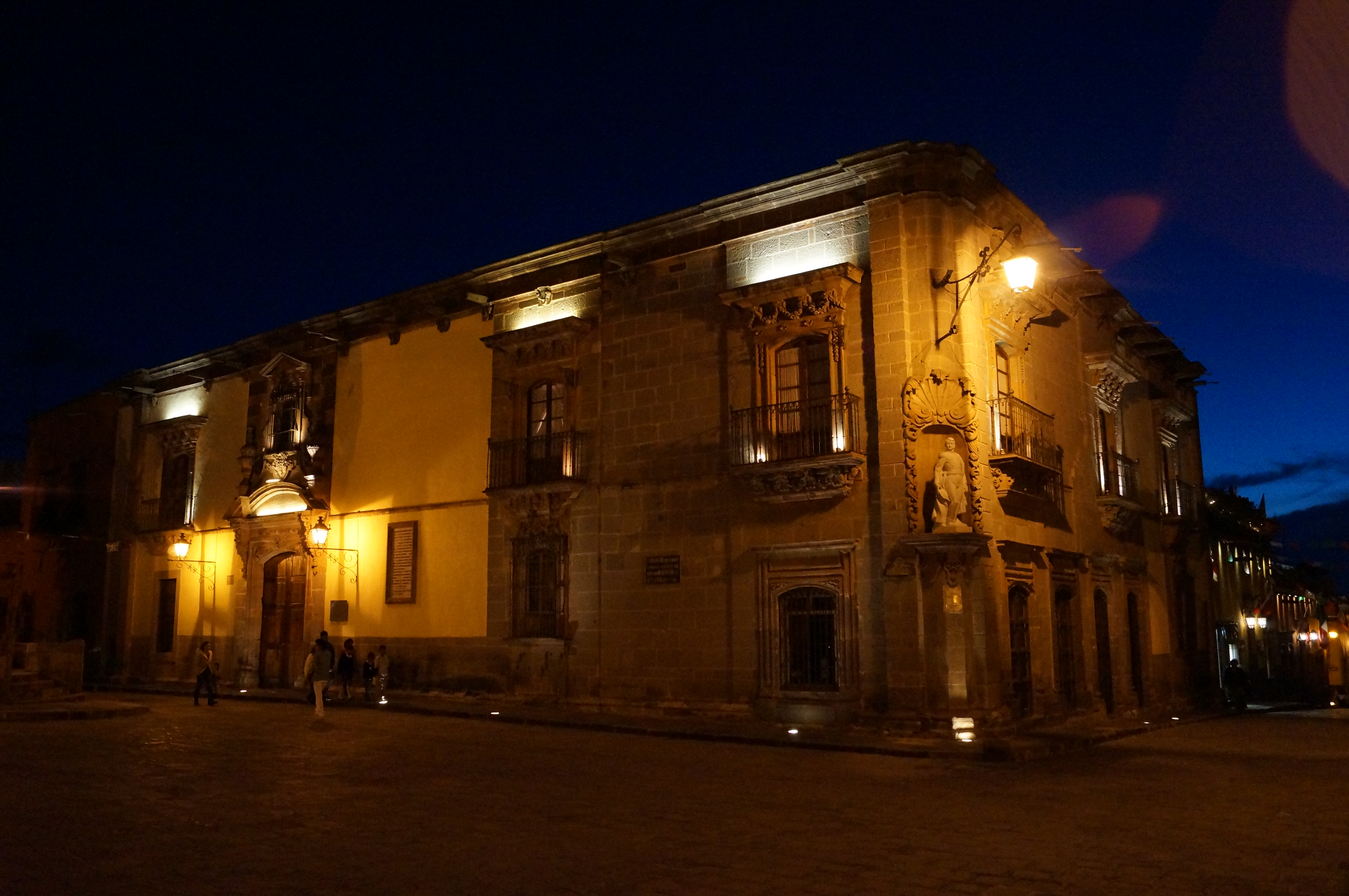 Allende House, San Miguel de Allende, Mexico